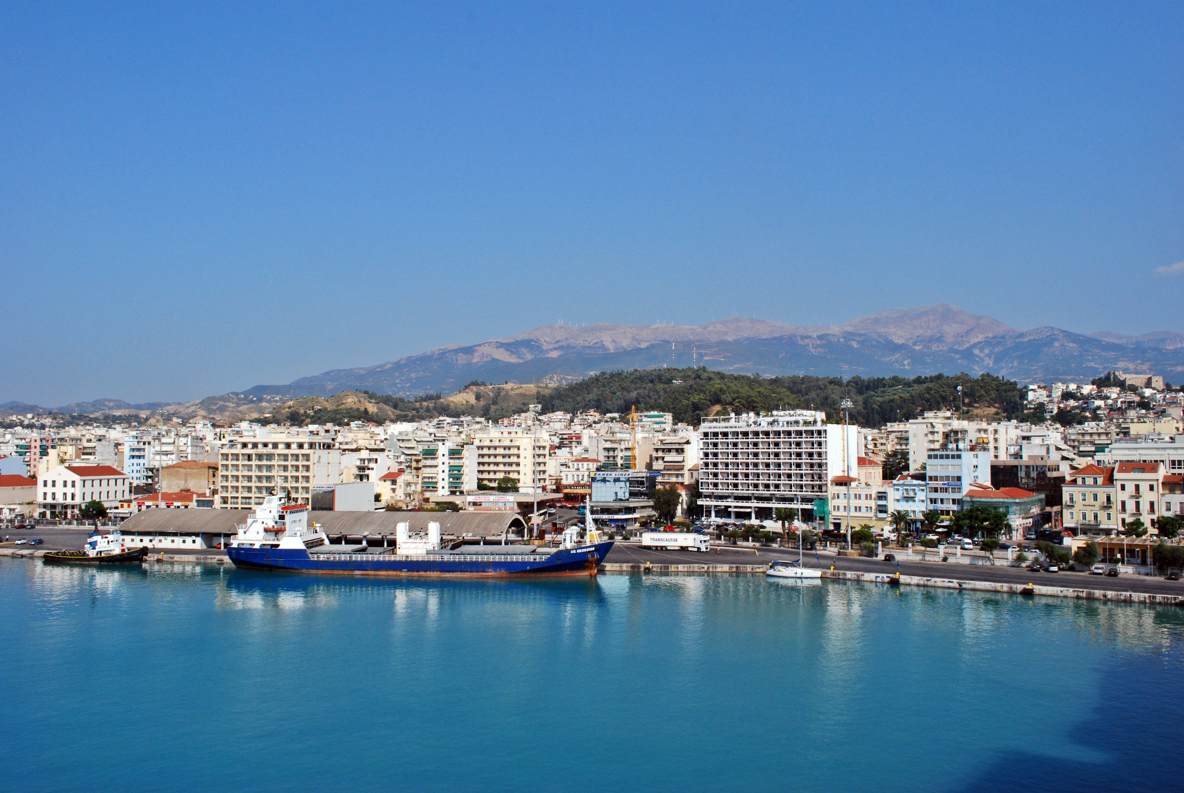 The port of Patras, picture taken from "Hellenic Champion" of ANEK Lines.